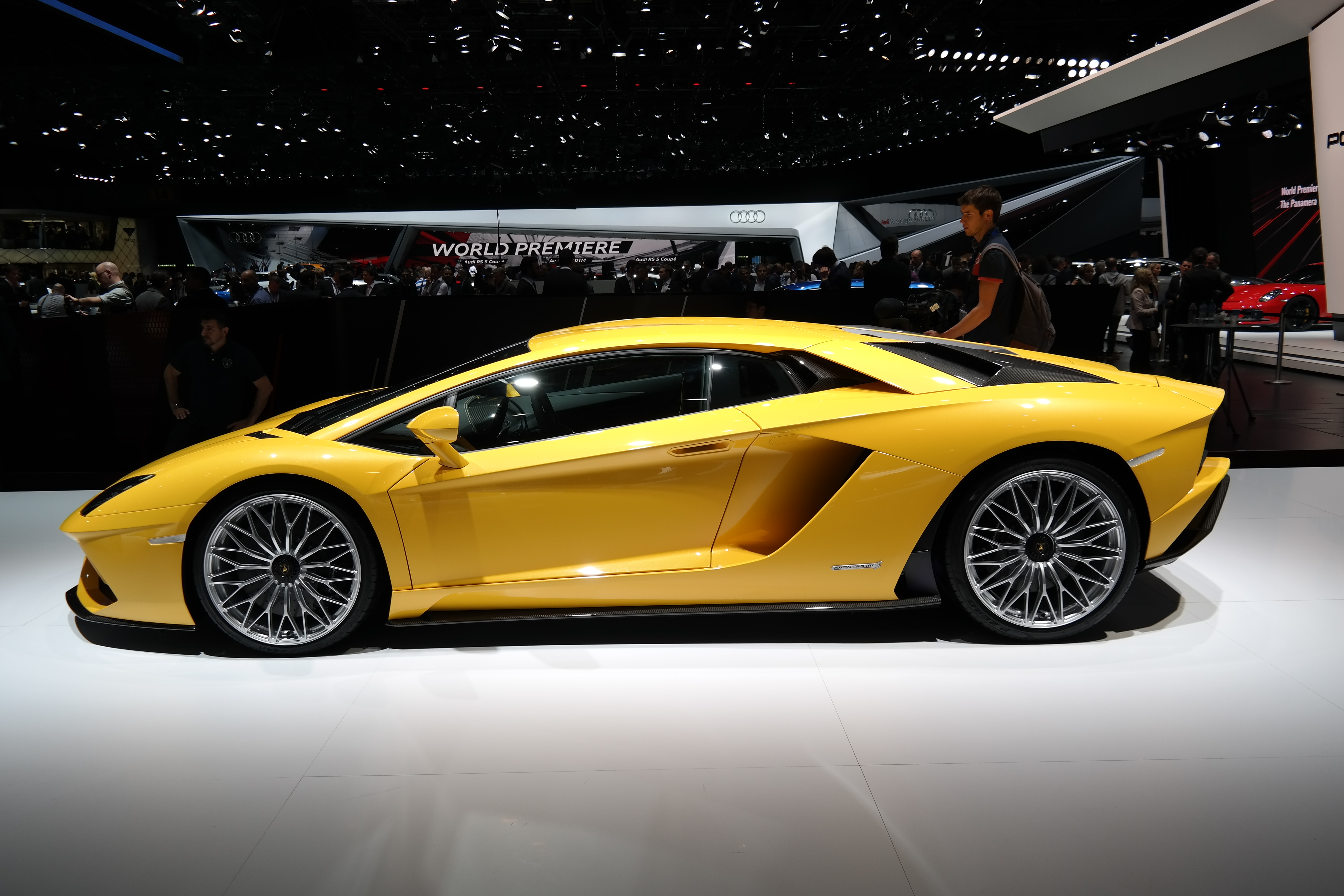 Geneva Motor Show 2017 (photo taken on the first press day)